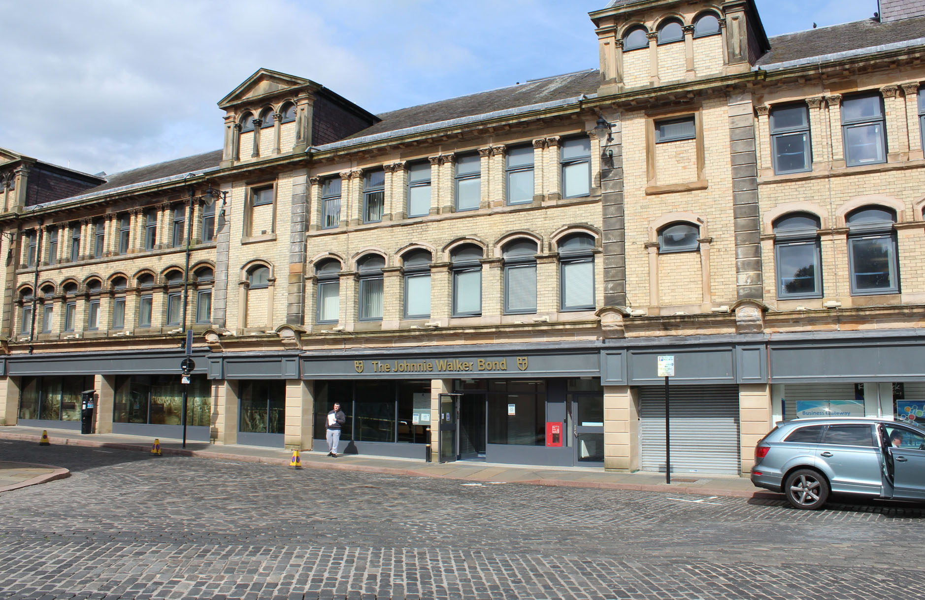 The former Johnnie Walker bond in Kilmarnock. Now East Ayrshire Council Social Work offices.